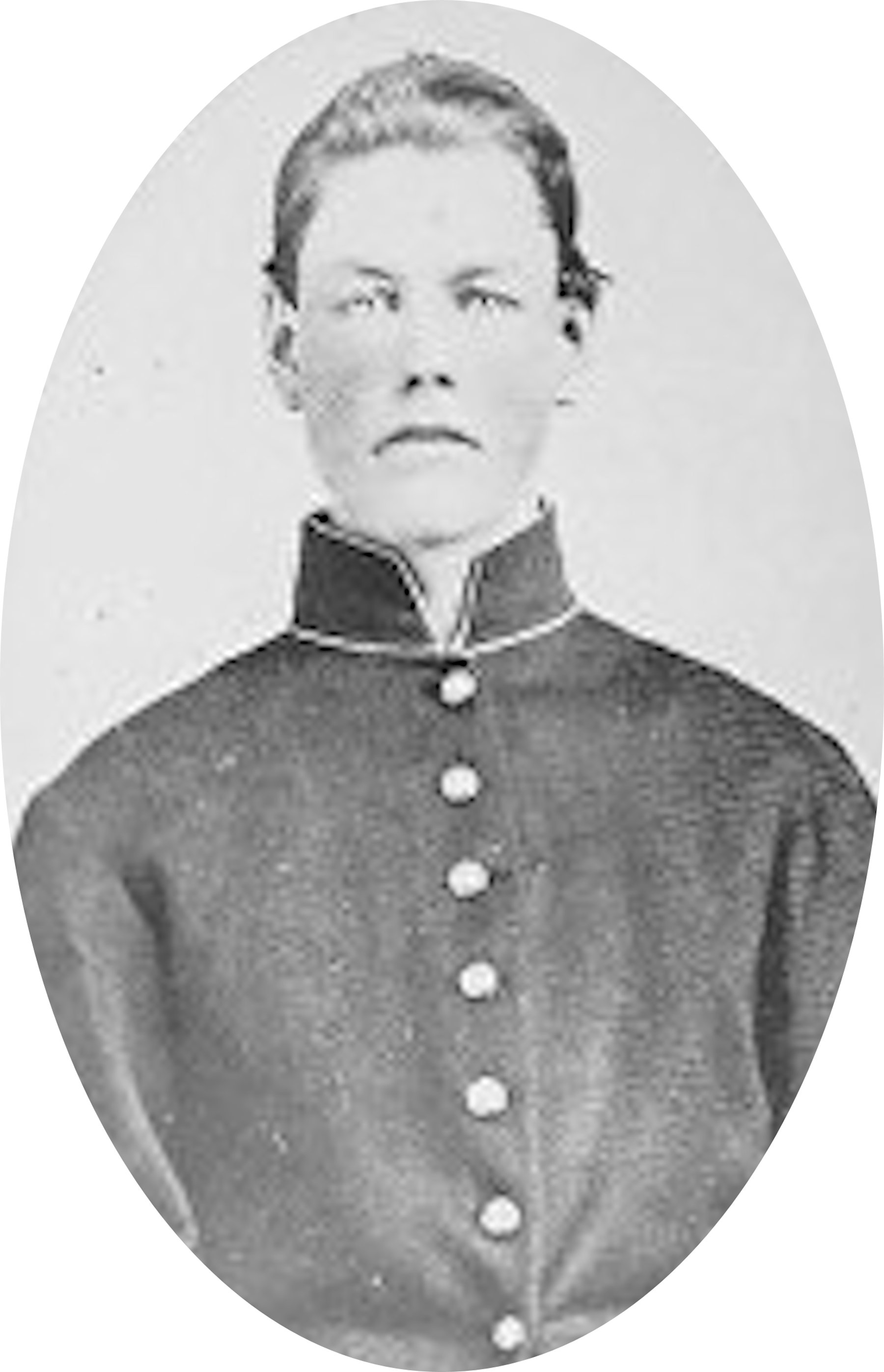 Medal of Honor winner Alonzo H Pickle